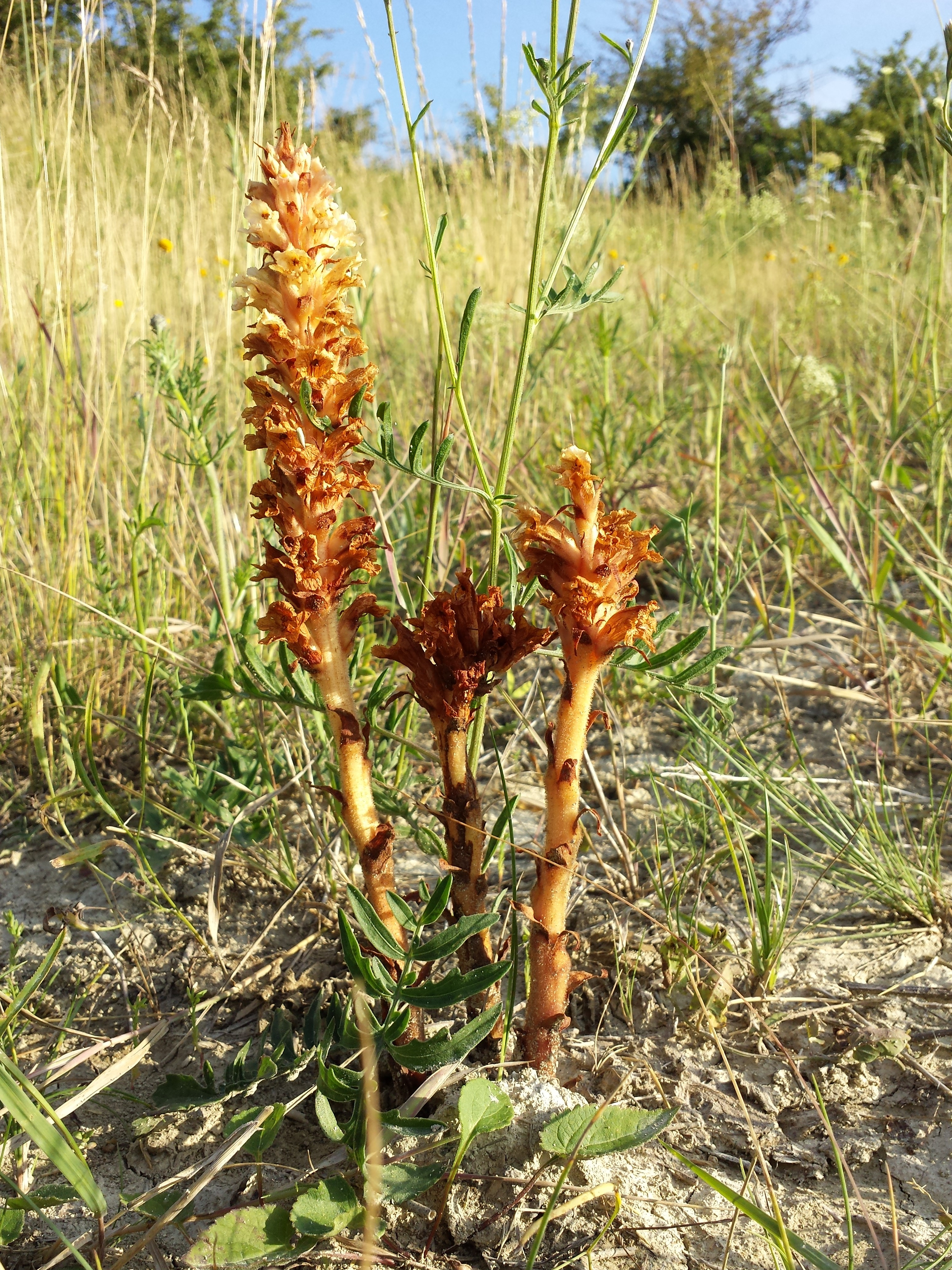 Habitus Taxonym: Orobanche kochii ss. Jiří Zázvorka: Orobanche kochii and O. elatior (Orobanchaceae) in central Europa, in: Acta Musei Moraviae, Scientiae biologicae, 95 (2), 77–119, Brno 2010, ISSN 1211-8788 = O. "elatior" ss. Beck et. auct. (teste Jiří Zázvorka 2015-07-24), host plant: Centaurea scabiosa Location: Steinberg near Niederhollabrunn, district Korneuburg, Lower Austria - ca. 375 m a.s.l. Habitat: fallow land